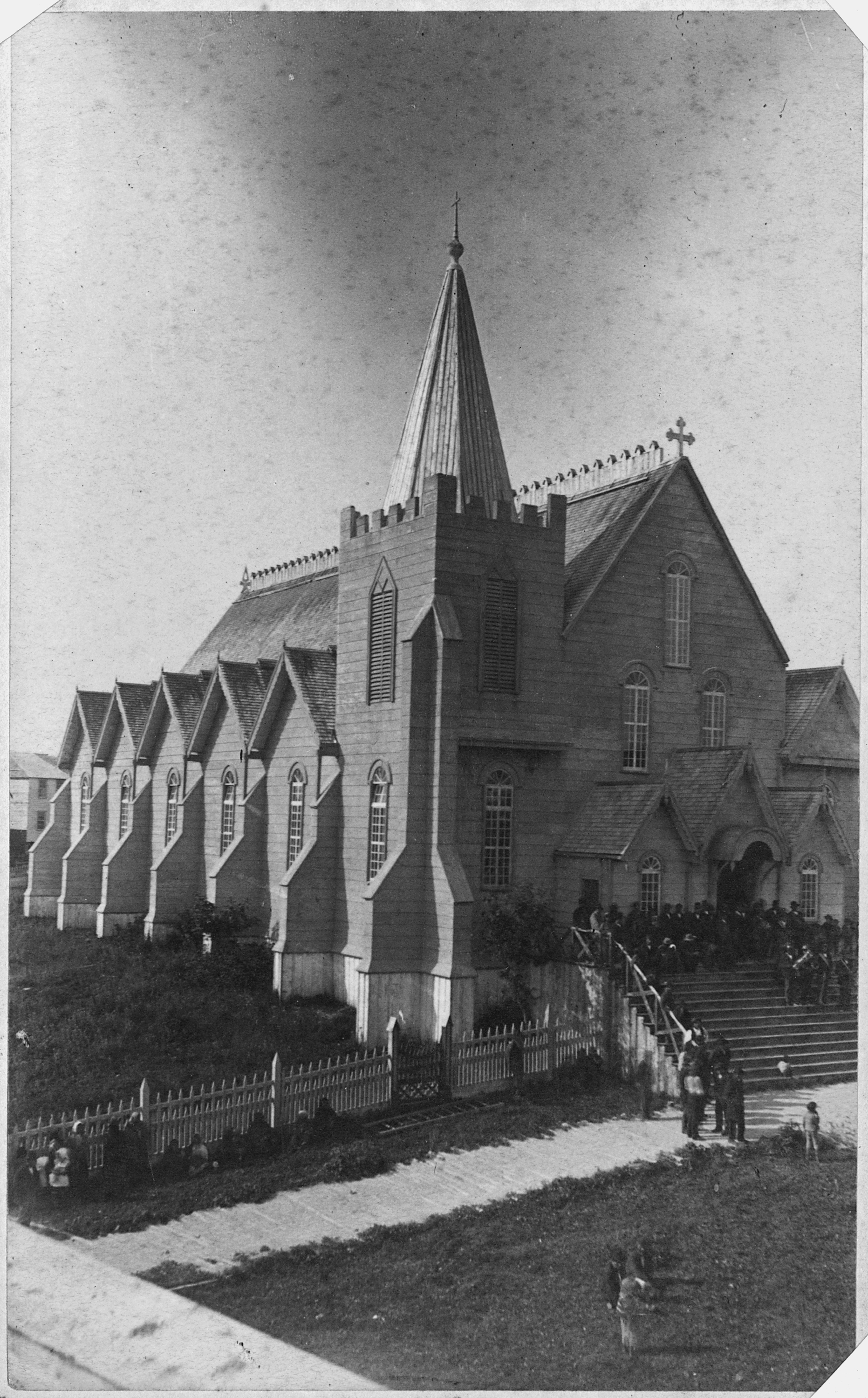 Scope and content: Exterior view of the church with a gathering of people.